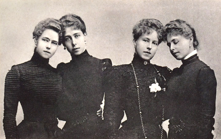 This photo of the daughters of Alfred, Duke of Saxe-Coburg and Gotha – Princess Beatrice, Princess Victoria Melita of Edinburgh and Saxe-Coburg and Gotha, Princess Alexandra, and Queen Marie of Romania, – is in the public domain. "Ducky" was the family's nickname for Victoria Melita.